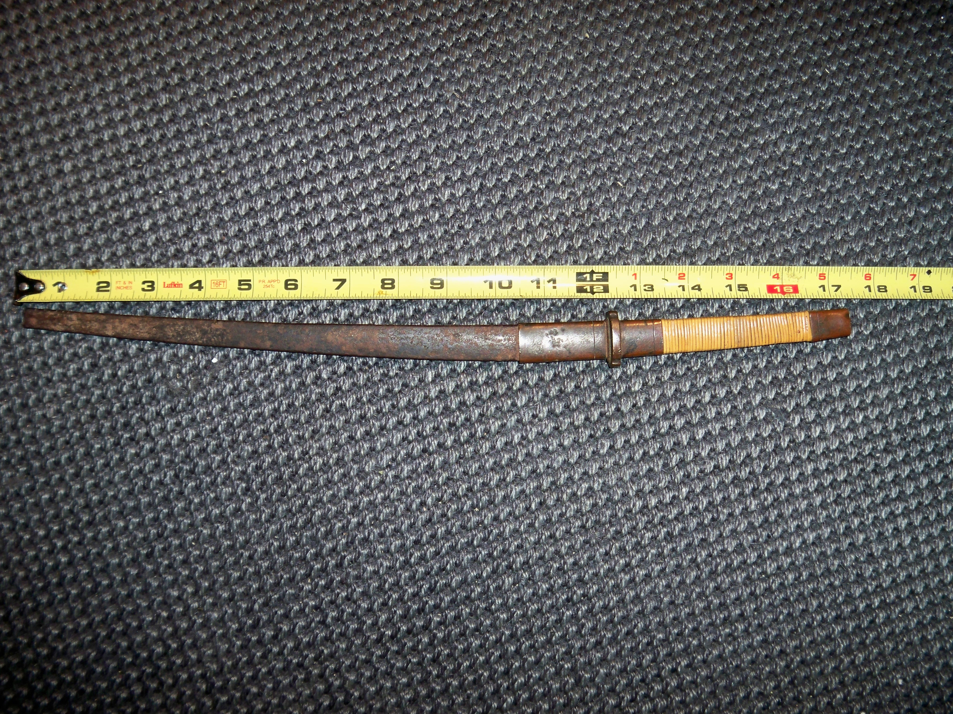 Antique Japanese tetsu ken (tekkan) iron sword. A sword like truncheon.